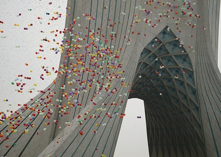 38th Anniversary of Iranian 1979 Revolution in Azadi square, Tehran